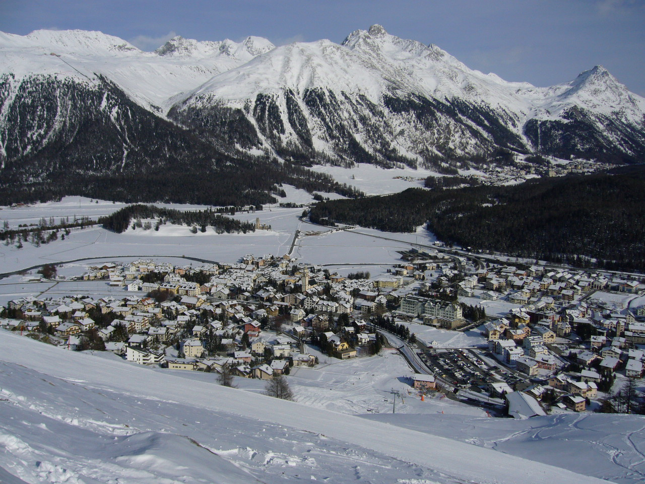 Celerina. Village in the canton of Graubünden. In the background from middle to right side: Schafberg (Munt da la Bês-cha, 2647), Las Sours (3008 m) and Piz Muragl (3257 m) and ??.